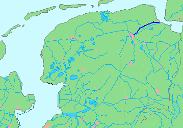 Location of a waterway (river/canal) in the Netherlends